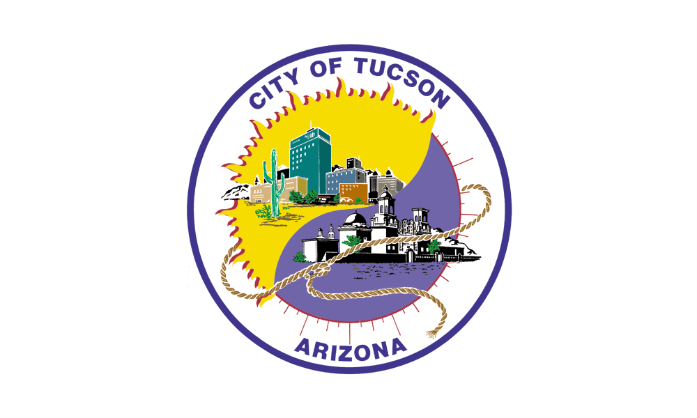 Flag of Tucson, Arizona.